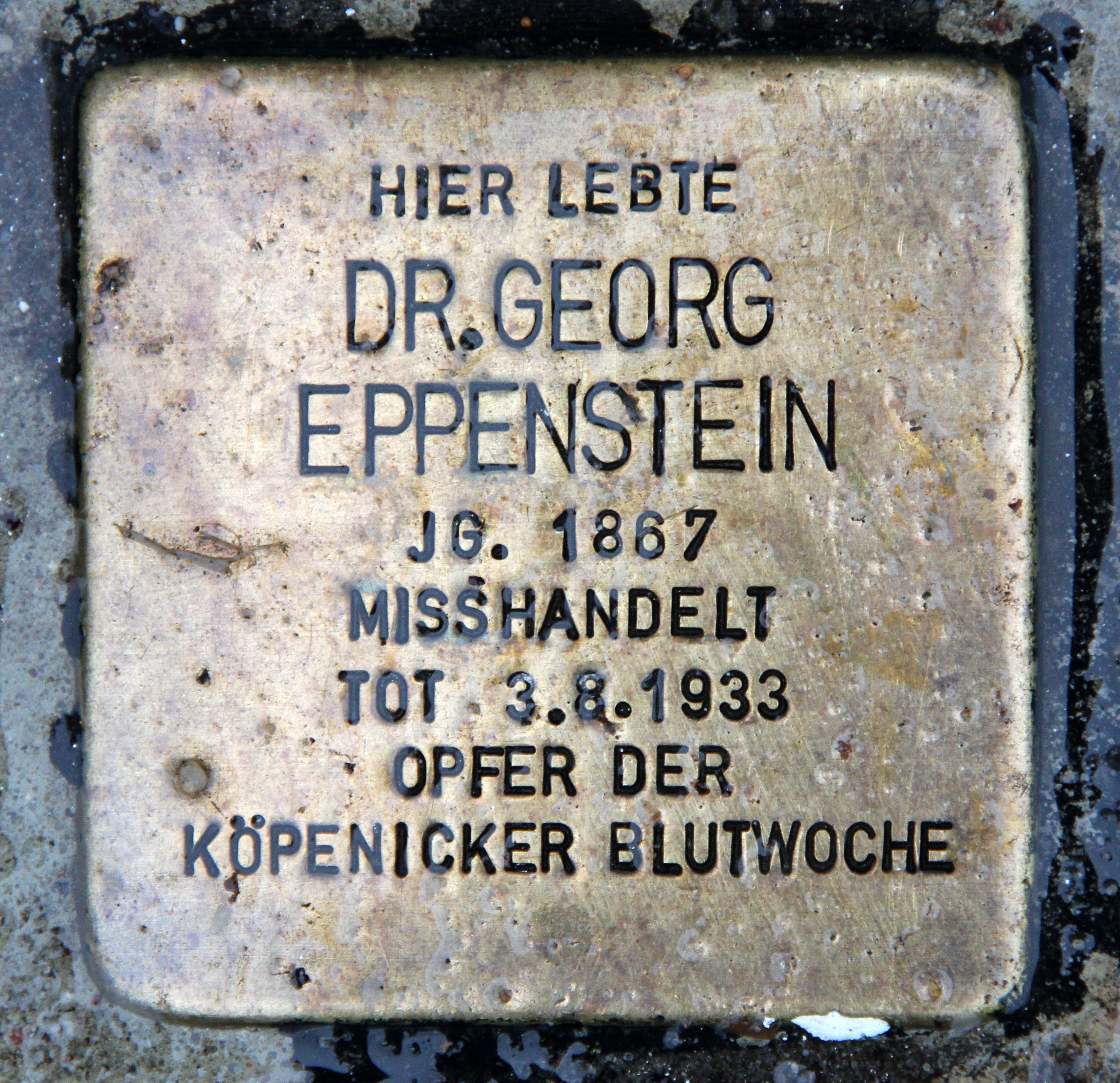 "Stolperstein" (stumbling block), Georg Eppenstein, Salvador-Allende-Straße 43, Berlin-Köpenick, Germany